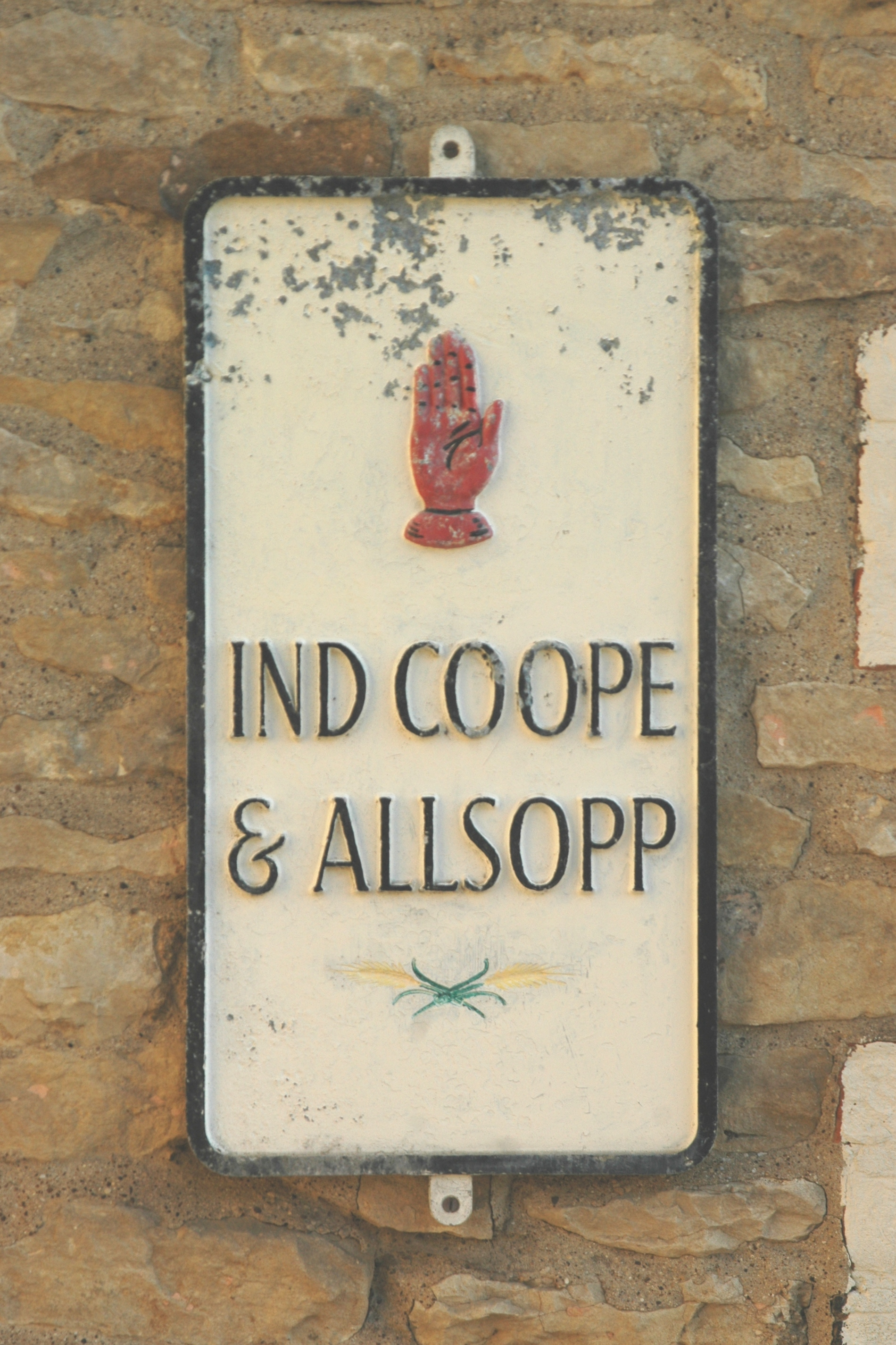 Brewer's plaque outside The Plough public house, Great Haseley, Oxfordshire